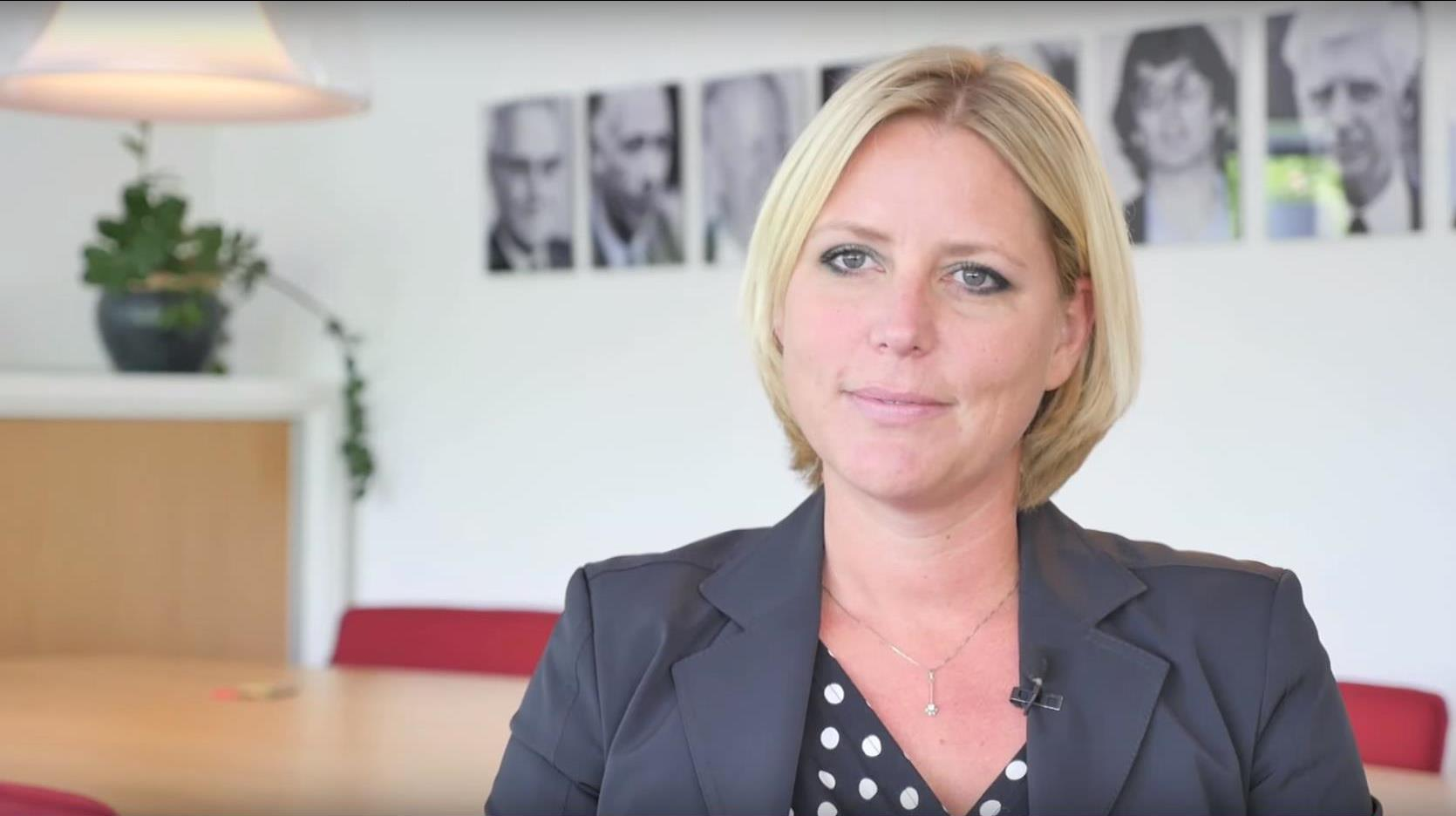 Dutch law scholar Rianne Letschert, receiving a VIDI scientific grant (2015)